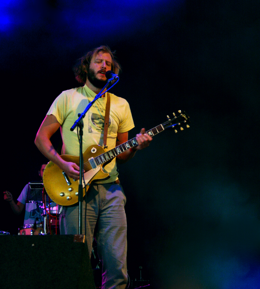 Bon Iver playing at "Way Out West" festival, Gothenburg, Sweden